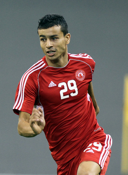 Boualem Khoukhi playing for Al Arabi during a Qatar Stars League match